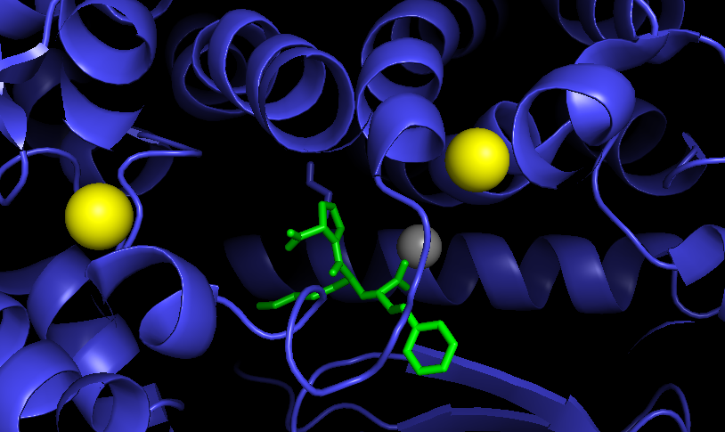 shows the active site of the enzyme, Zinc ions are in grey, Chloride ions are in yellow